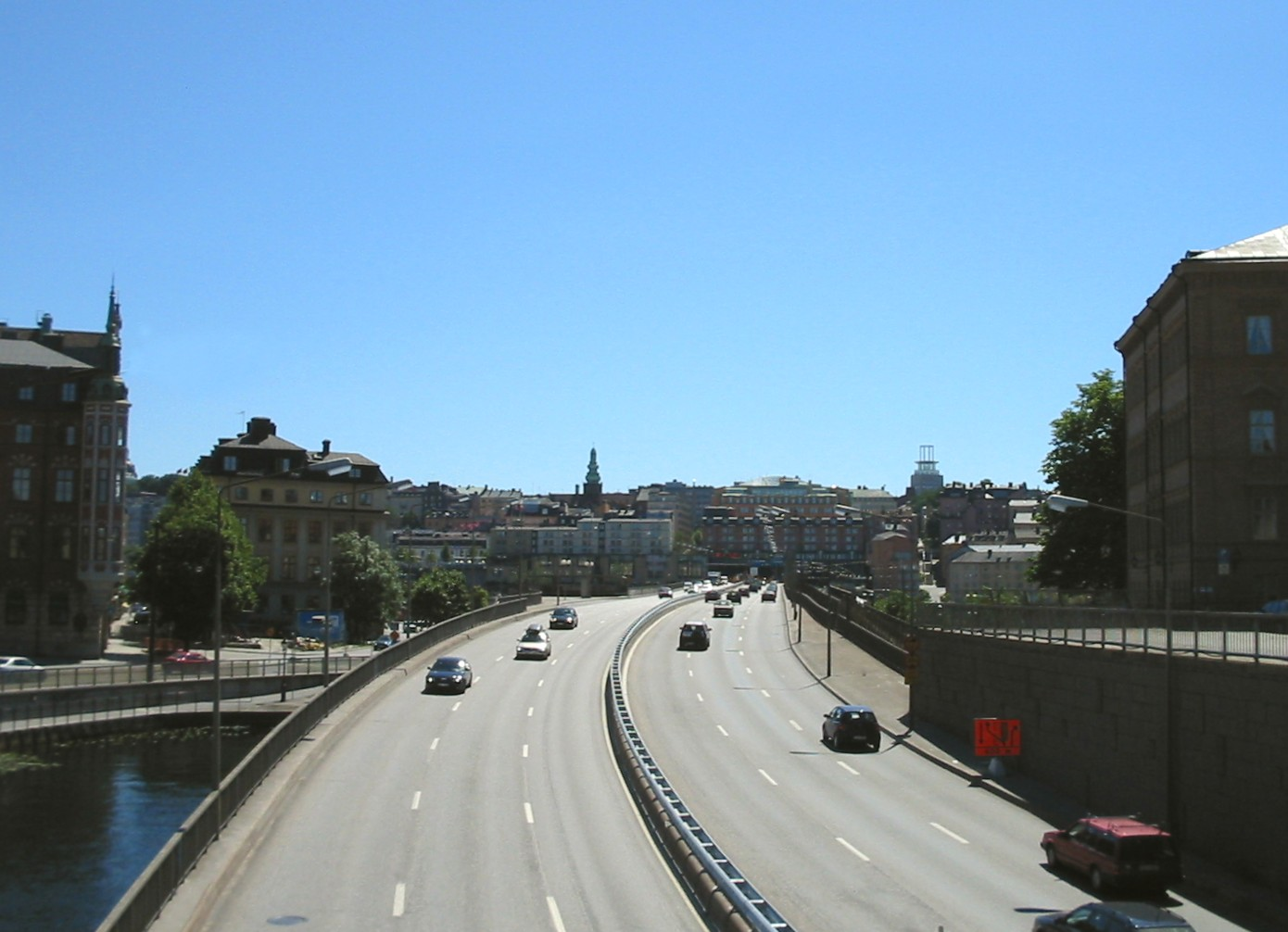 Centralbron (Central bridge), Stockholm, Sweden. View southbound from Riddarholmsbron (Riddarholm bridge). Image taken by myself, TimSE, on 2005-07-04.